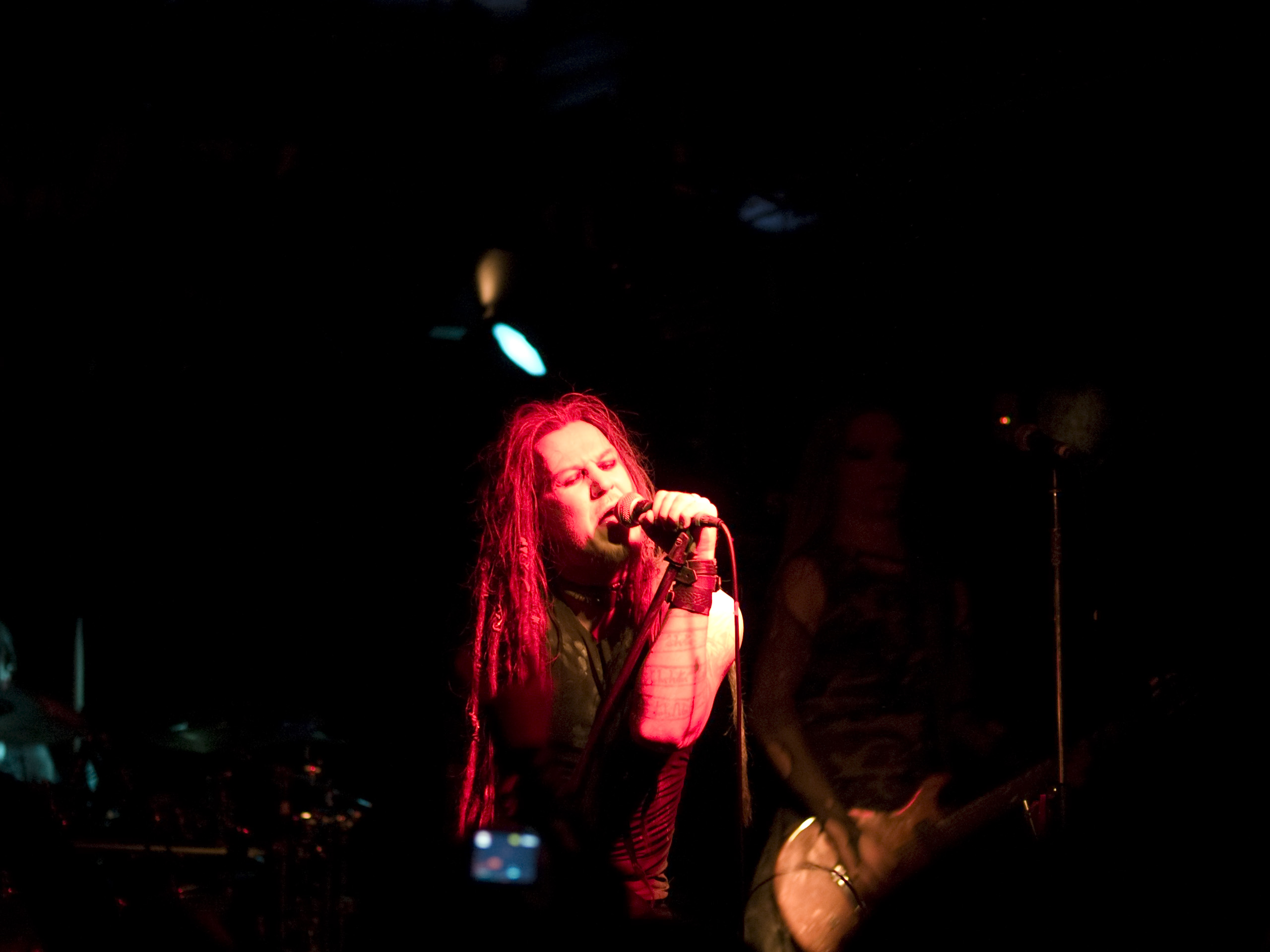 MORTIIS @ Voodoo Lounge 11th Aprril 2007